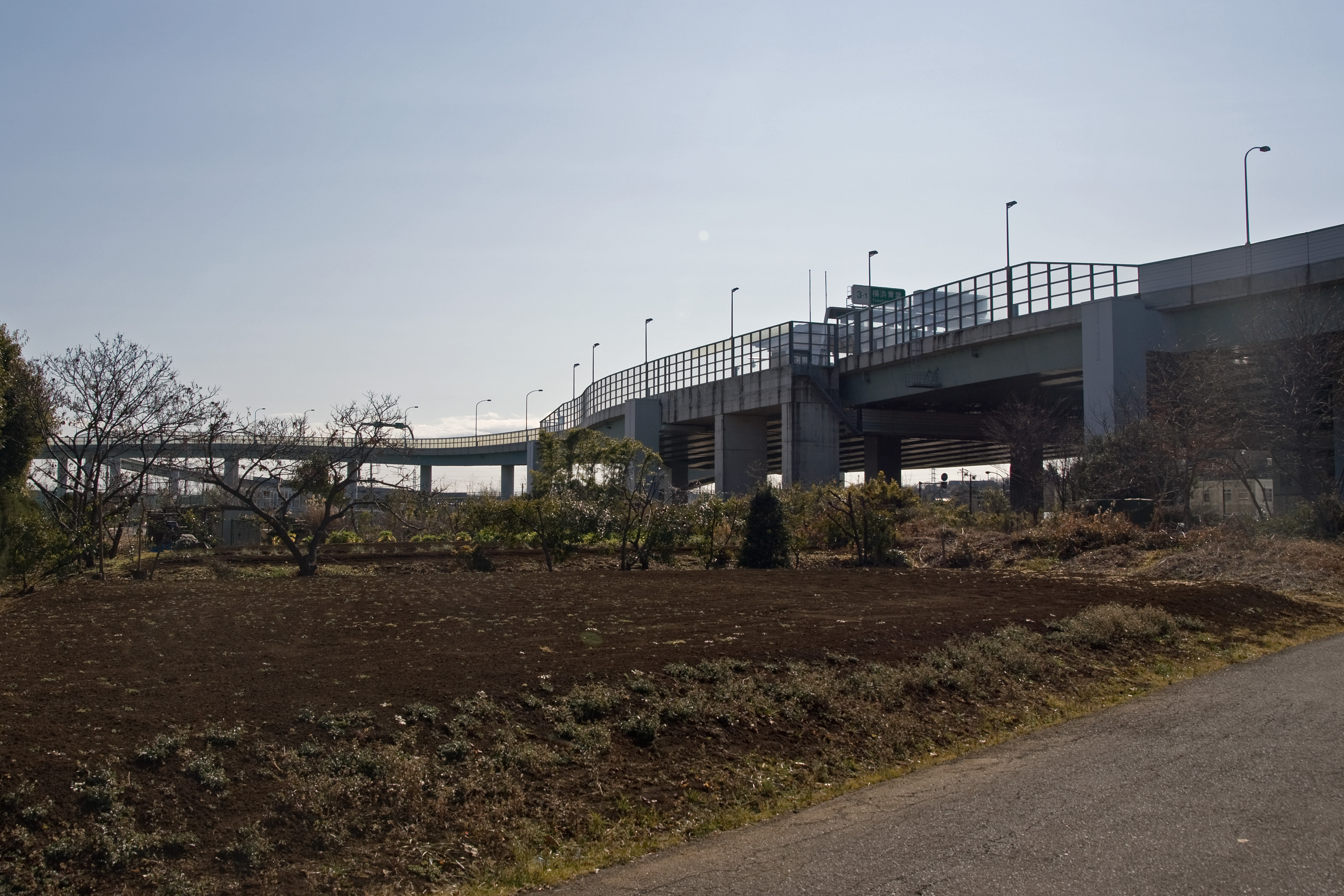 Yokohama-Aoba Interchange on Tōmei Expressway, in Aoba-ku, Yokohama City, Kanagawa Prefecture, Japan